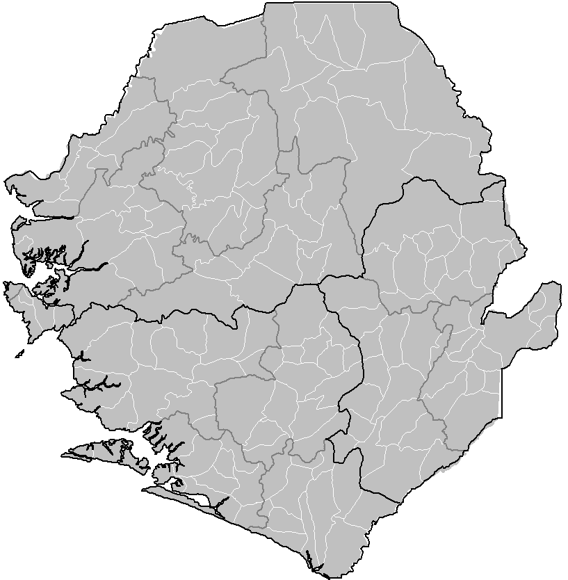 Map of the chiefdoms of Sierra Leone.